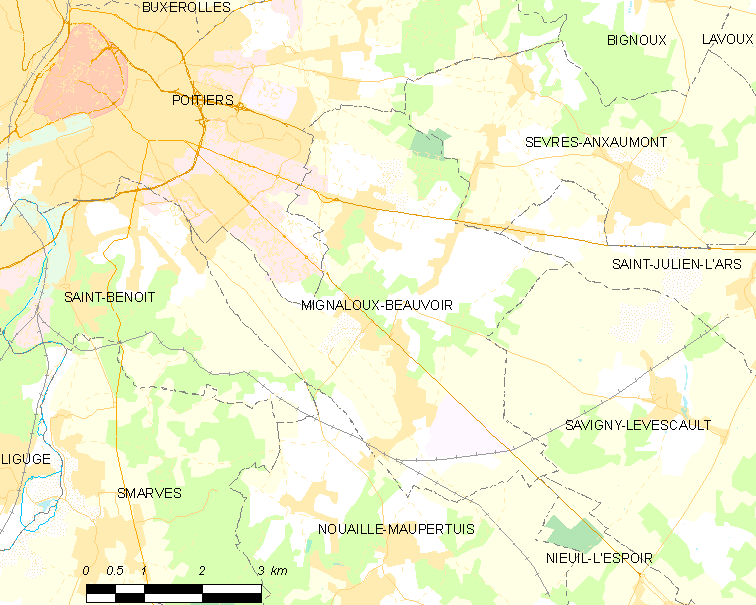 Map of French municipality Mignaloux-Beauvoir